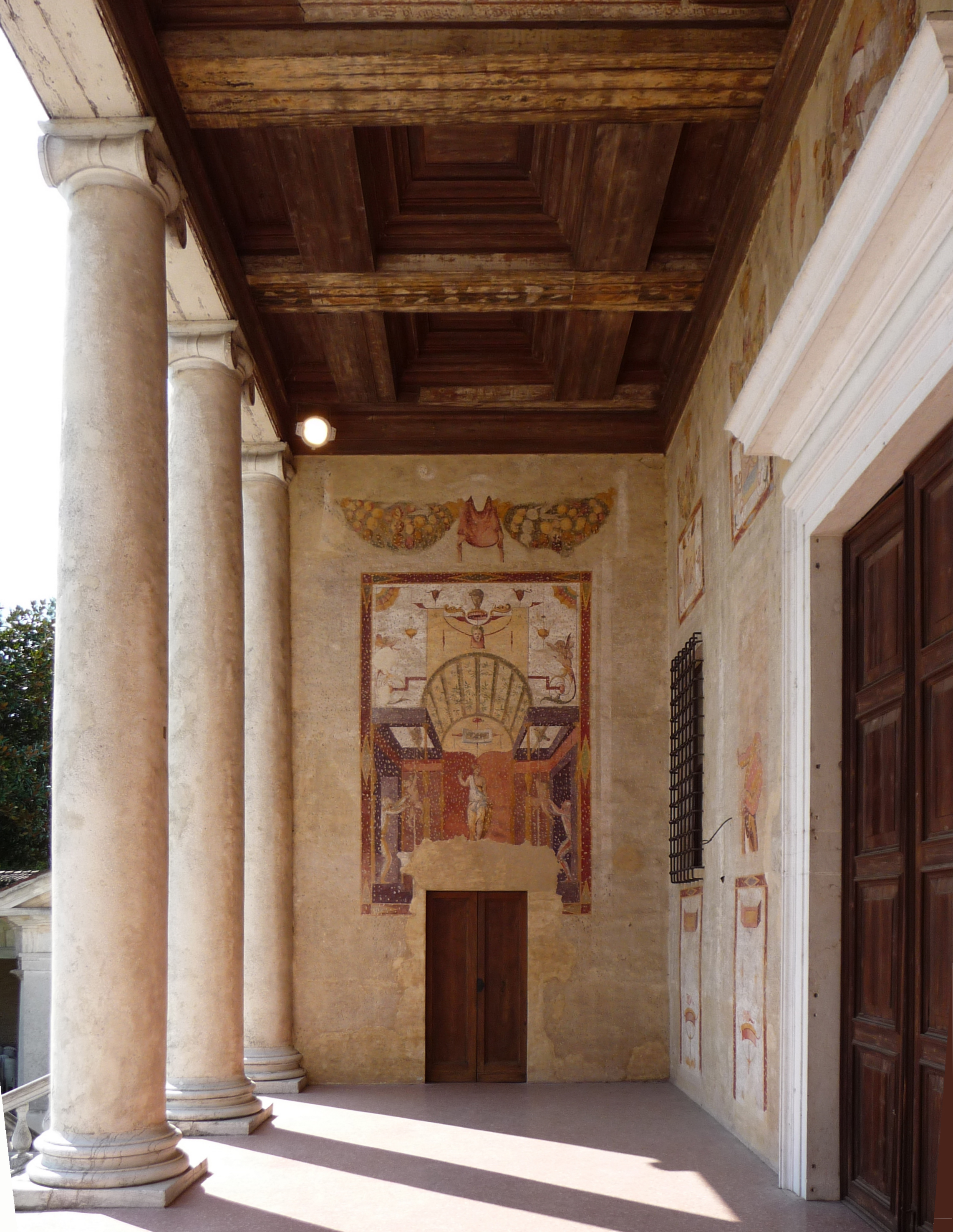 Villa Badoer in Fratta Polesine, province of Rovigo, Italy, designed by Andrea Palladio in 1554 and built 1556-1563.